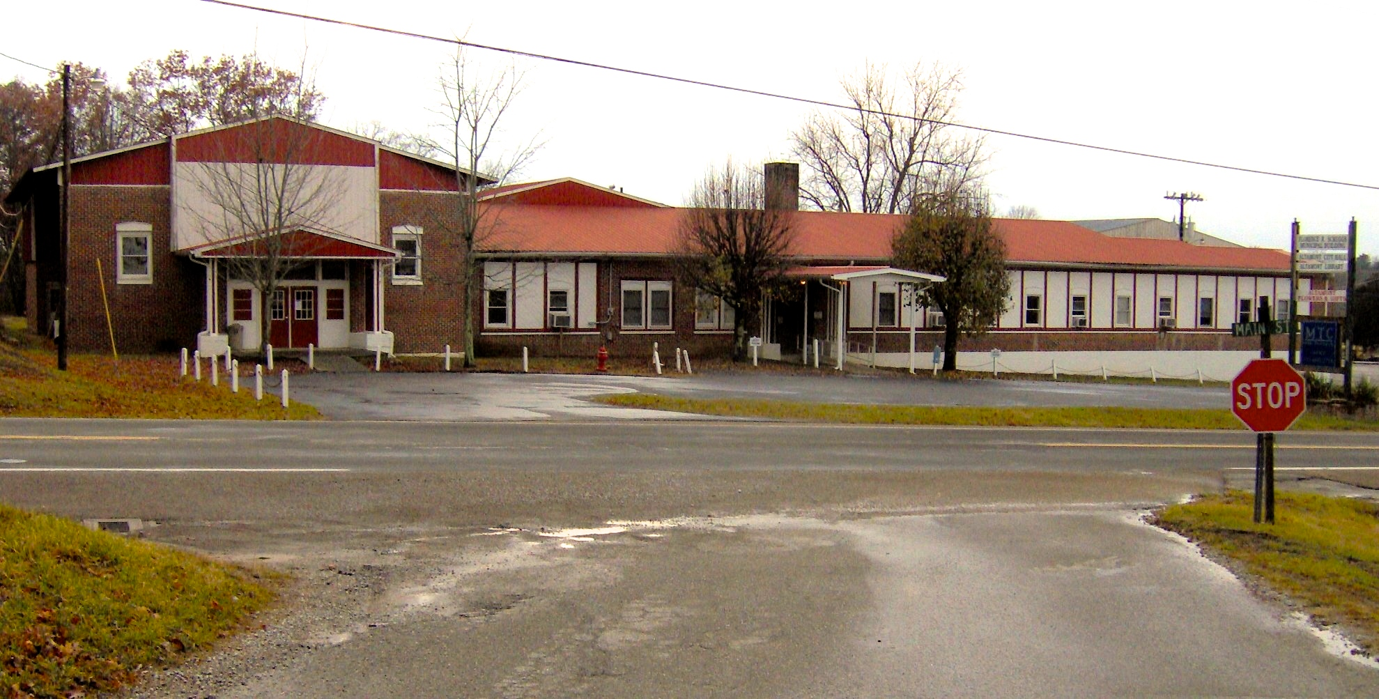 The Florence R. Scruggs Municipal Building in Altamont, Tennessee, in the southeastern United States. The building, formerly Altamont's school building, now houses the Altamont City Hall and the Altamont Library and Museum.